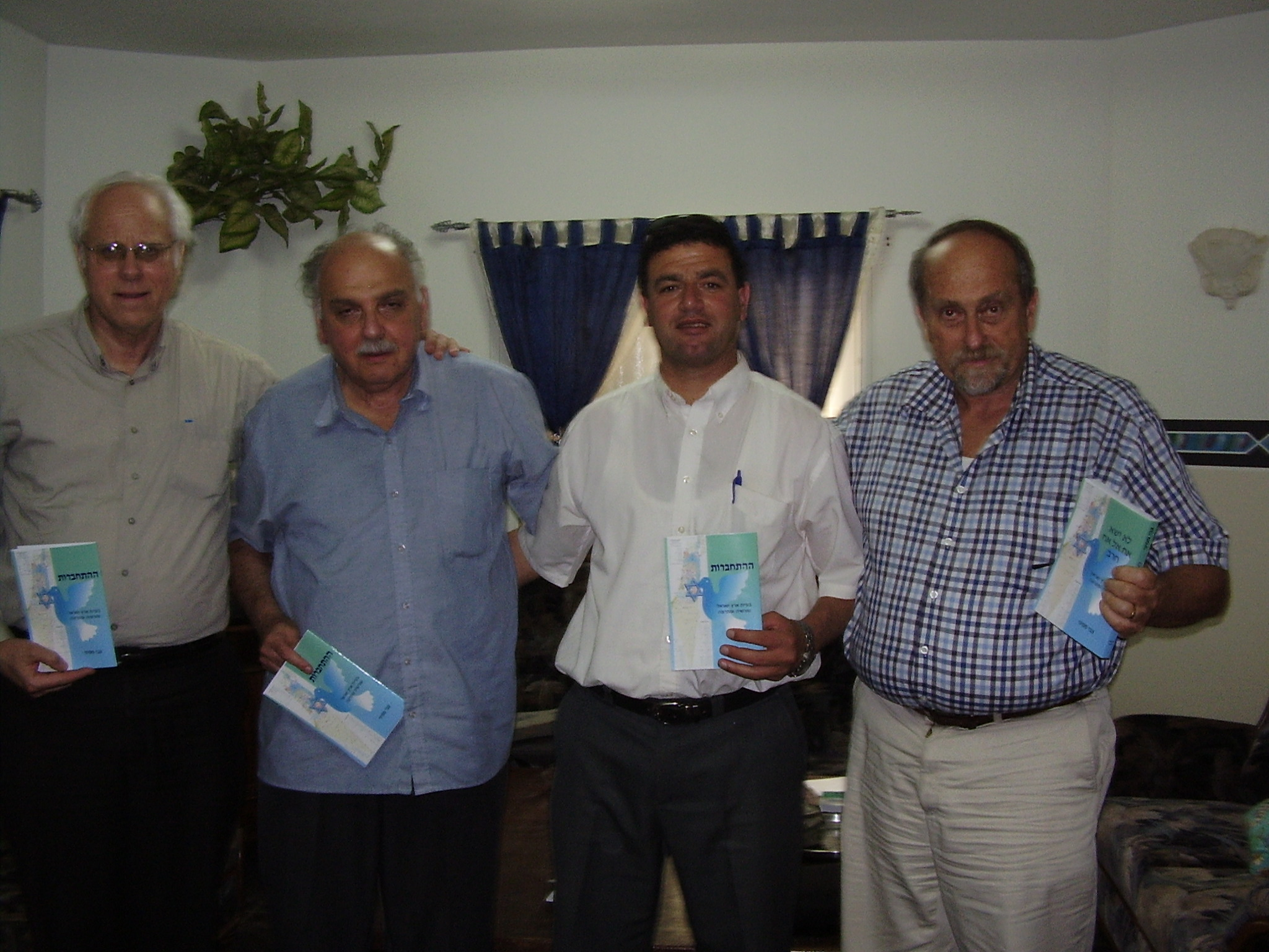 This photo was taken in Rahat with the first Bedouin member of the Engagement movement. In the picture, the indviduals standing from left to right, are as follows: (1) Dr. Mordechai Nisan from the Hebrew University (Middle-East studies) (2) Asher Shlein – A peace activist (3) Mounir Al Krenawi from the Al-Krenawi tribe, head of the Kadima party branch and manager of medical organization branch in Rahat. (4) Me